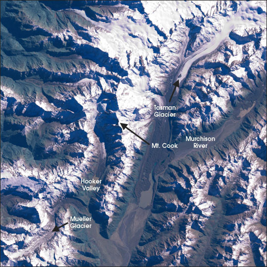 This true-color image from Landsat points out features of the Mount Cook region in the South Island of New Zealand.